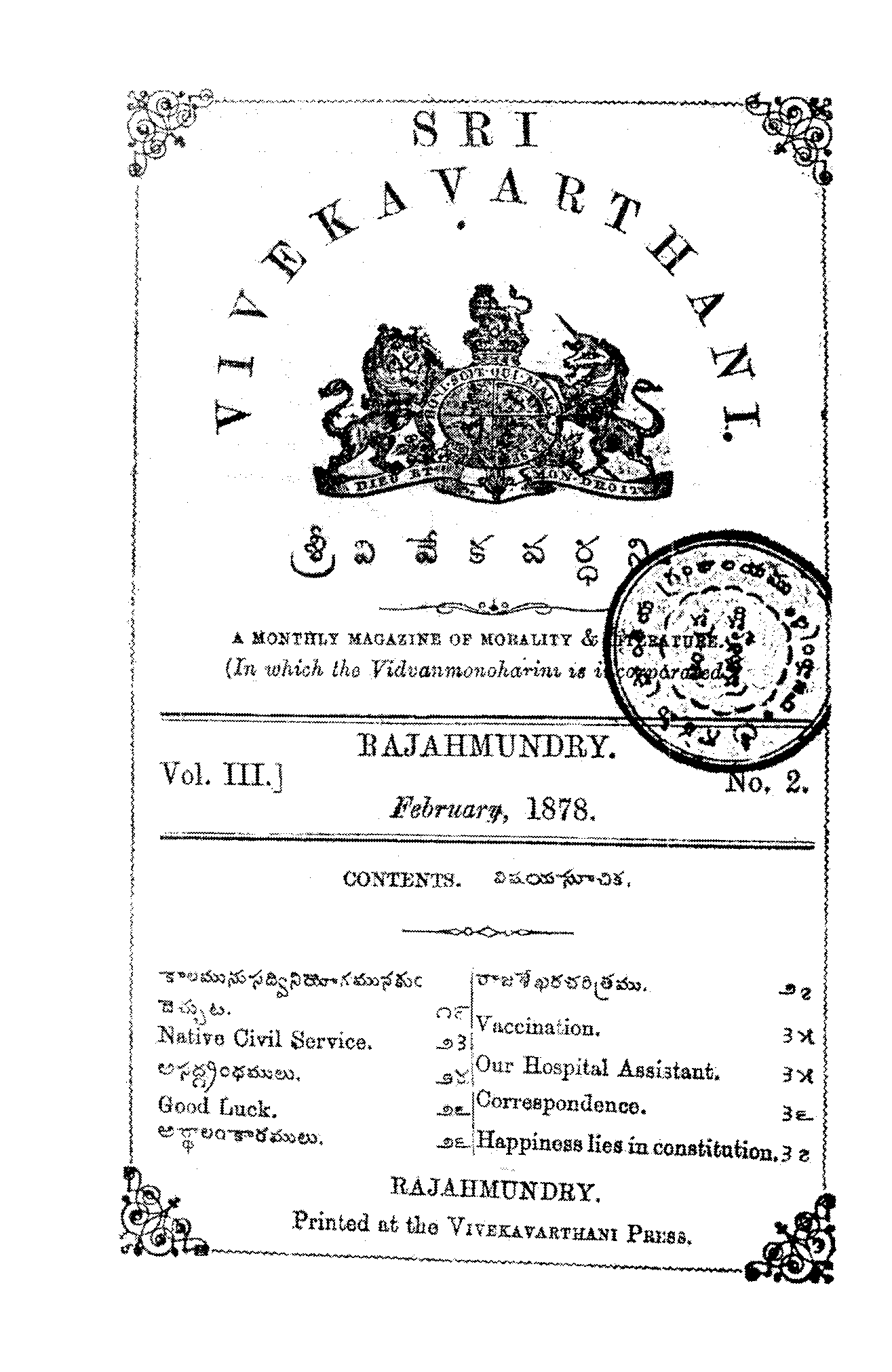 Cover page of early Telugu Magazine Circa 1878